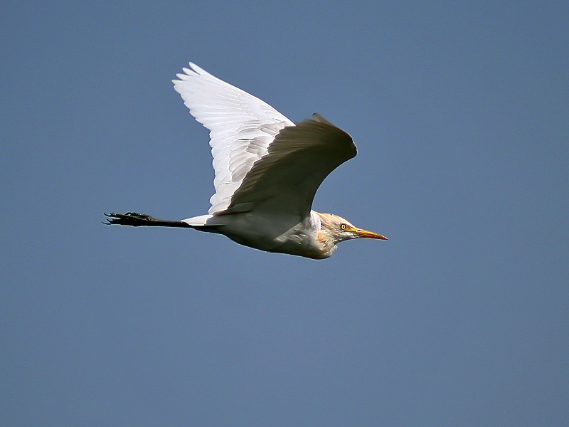 Eastern Cattle Egret Bubulcus coromandus in Kolkata, West Bengal, India.